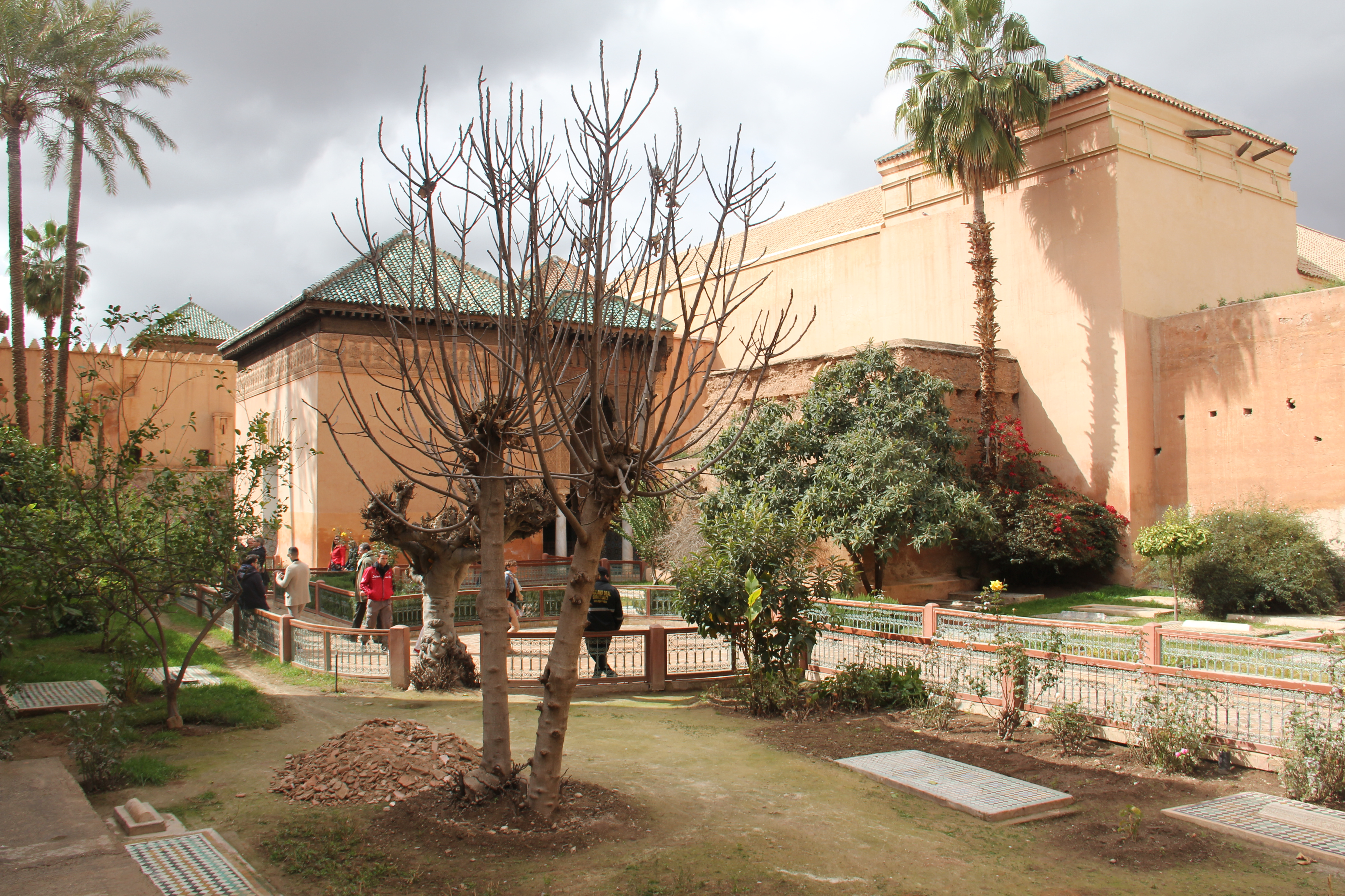 Sadian Tombs garden trees